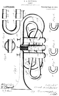 Enhanced scan of Couturier 1913 patent artwork from US Pat Ofc